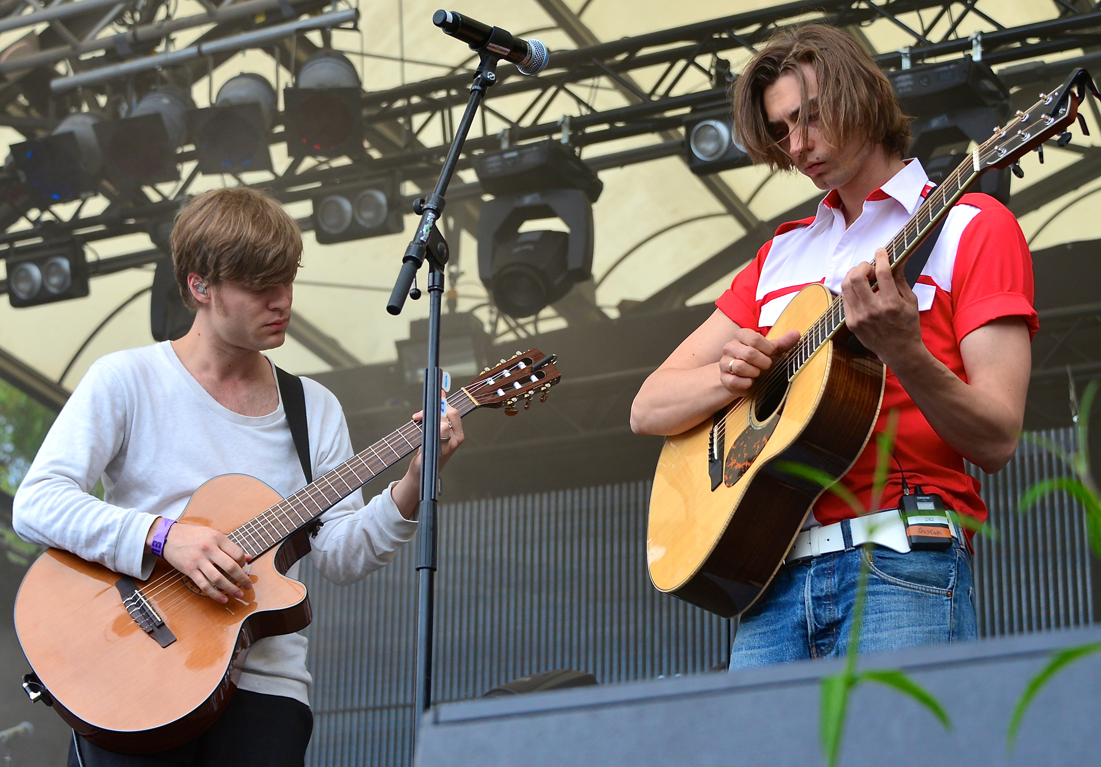 Mando Diao during RIX FM Festival 2013 in King's Garden in Stockholm.